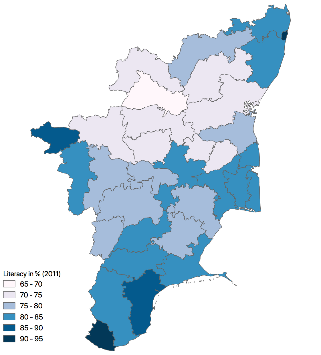 A Choropleth map of Tamilnadu state, India, showing the district wise literacy rate in 2011.